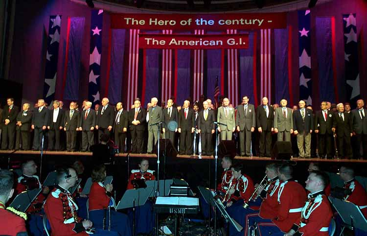 2000 Congressional Medal of Honor recipients, entertained by the Pentagon Pops.